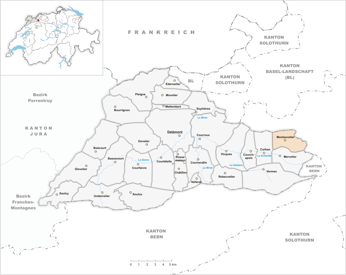 Municipality Montsevelier